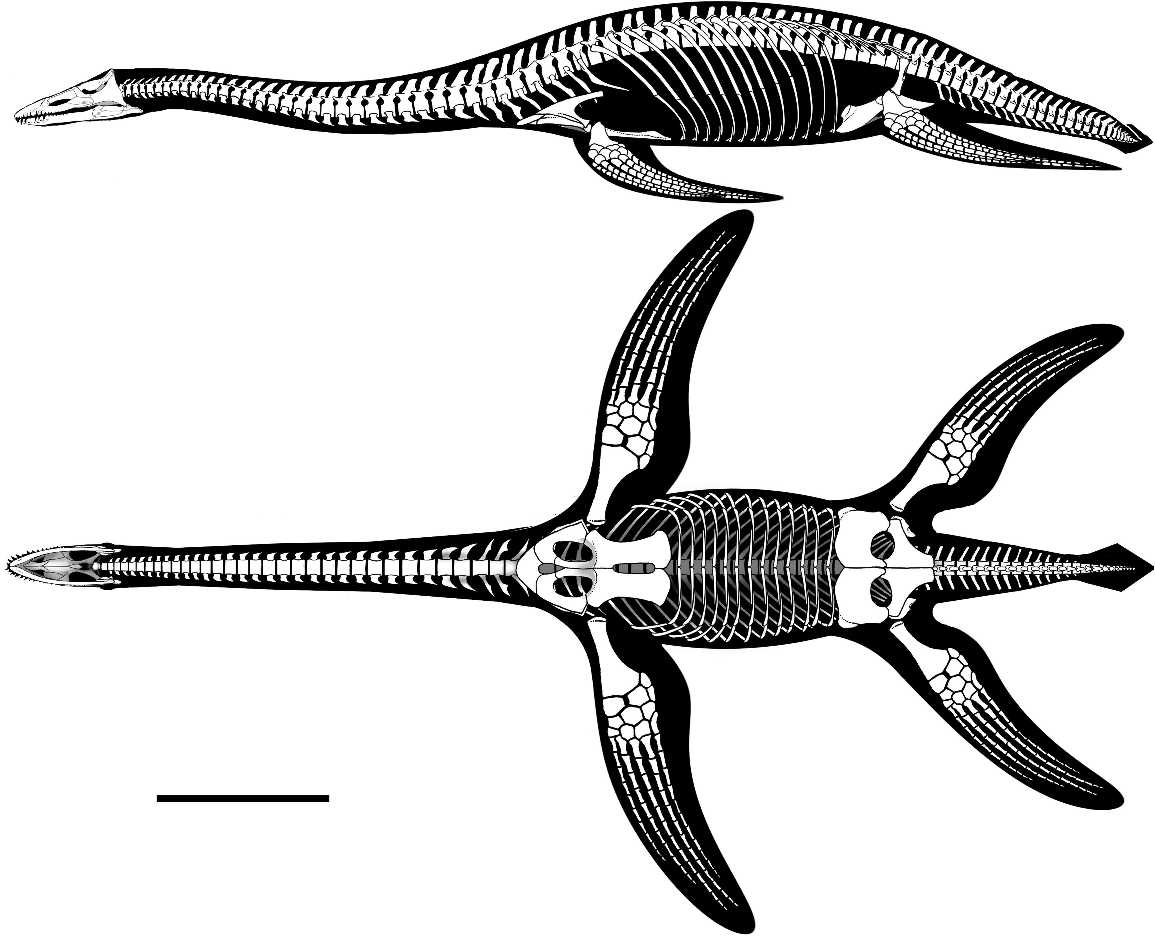 Brancasaurus brancai, skeletal reconstruction in lateral and ventral views based upon the preserved elements and the figures of Wegner (1914). The length of the pectoral paddle is hypothetical. Scale bar = 500 mm. Artwork by Jaime Headden.